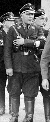 SS-Oberführer Fritz Karl Engel